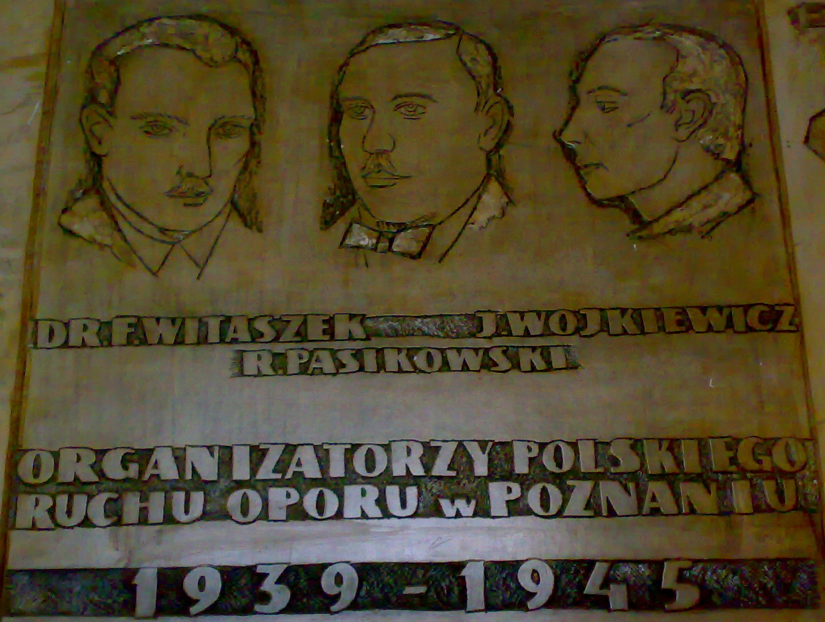 Polish antinazi from Poznan. POlaque in Imperial Castle in Poznan.